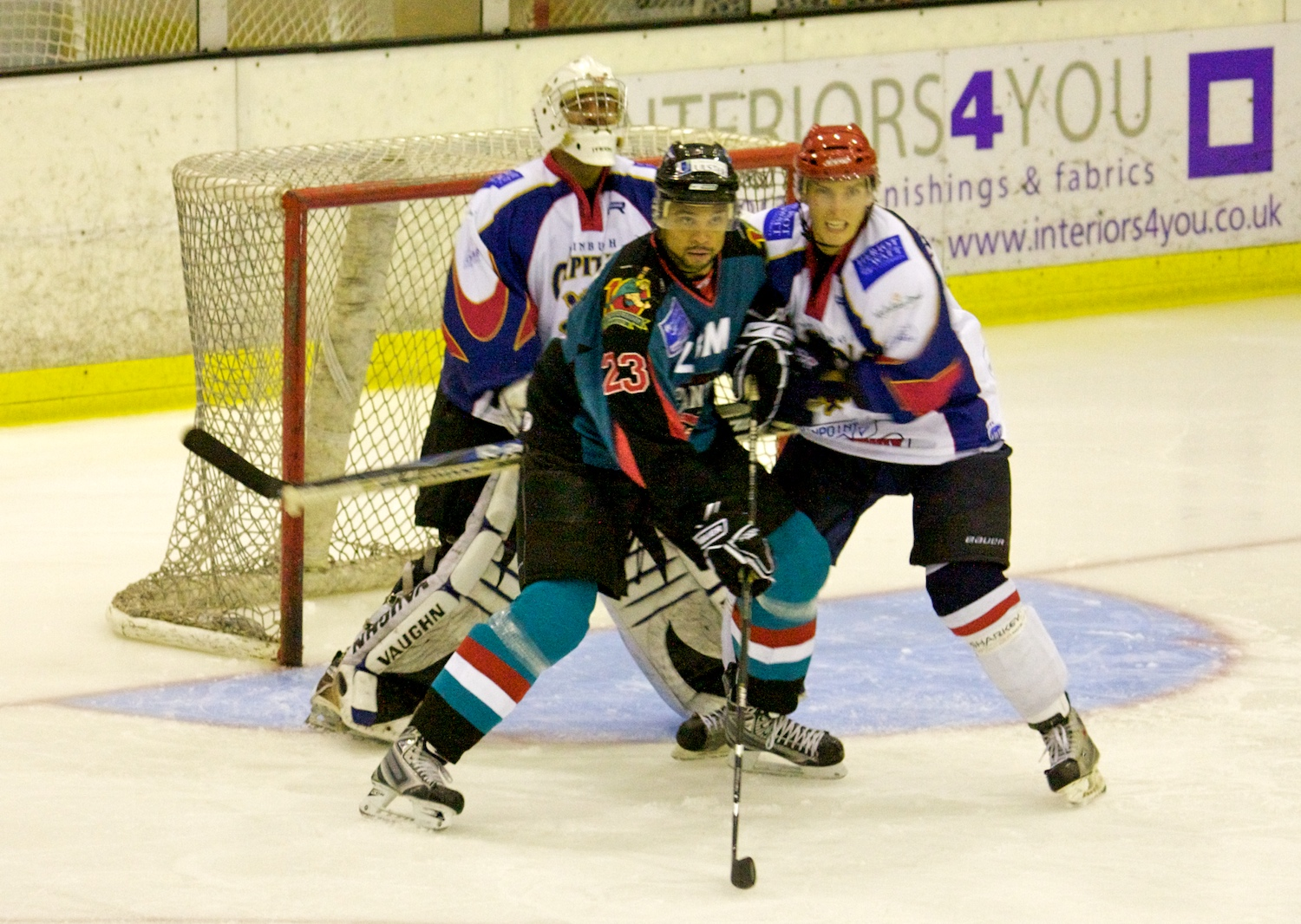 Edinburgh Capitals vs. Belfast Giants, 2009.